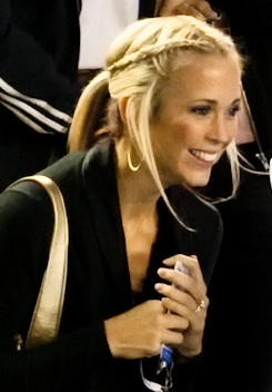 Bec Hewitt is amused by the Channel 7 commentator Jim Courier's comments. Australian Open 2010, Melbourne, Australia